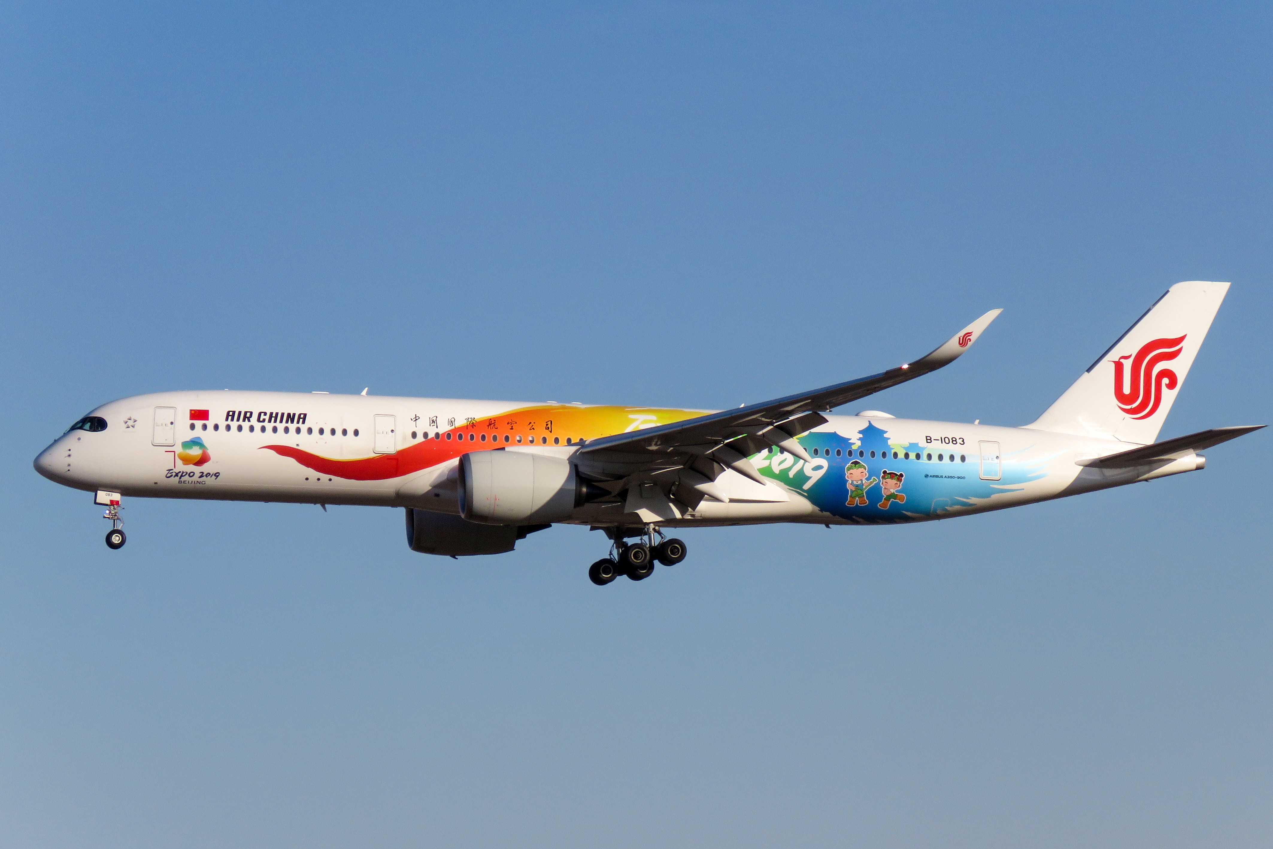 Air China 1520 from Shanghai Hongqiao. 3 days to 2019, it's really a great honour to get the "profile" of this "Expo 2019" logojet!